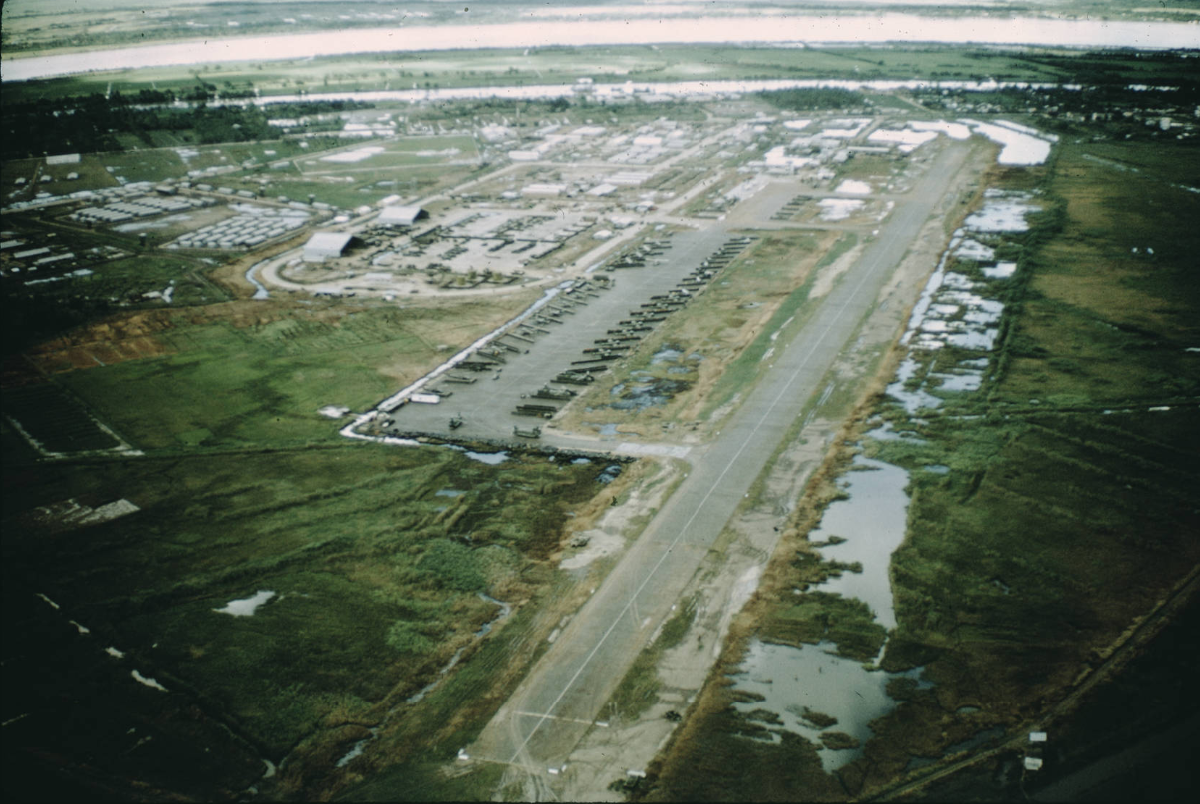 Can Tho airfield and base complex where the 69th Engr Bn is now located. Construction of the cantonment, power distribution system and completion of certain contractor projects are the primary tasks of the battalion.